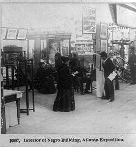 Negro Building at Cotton States and International Exposition, 1895